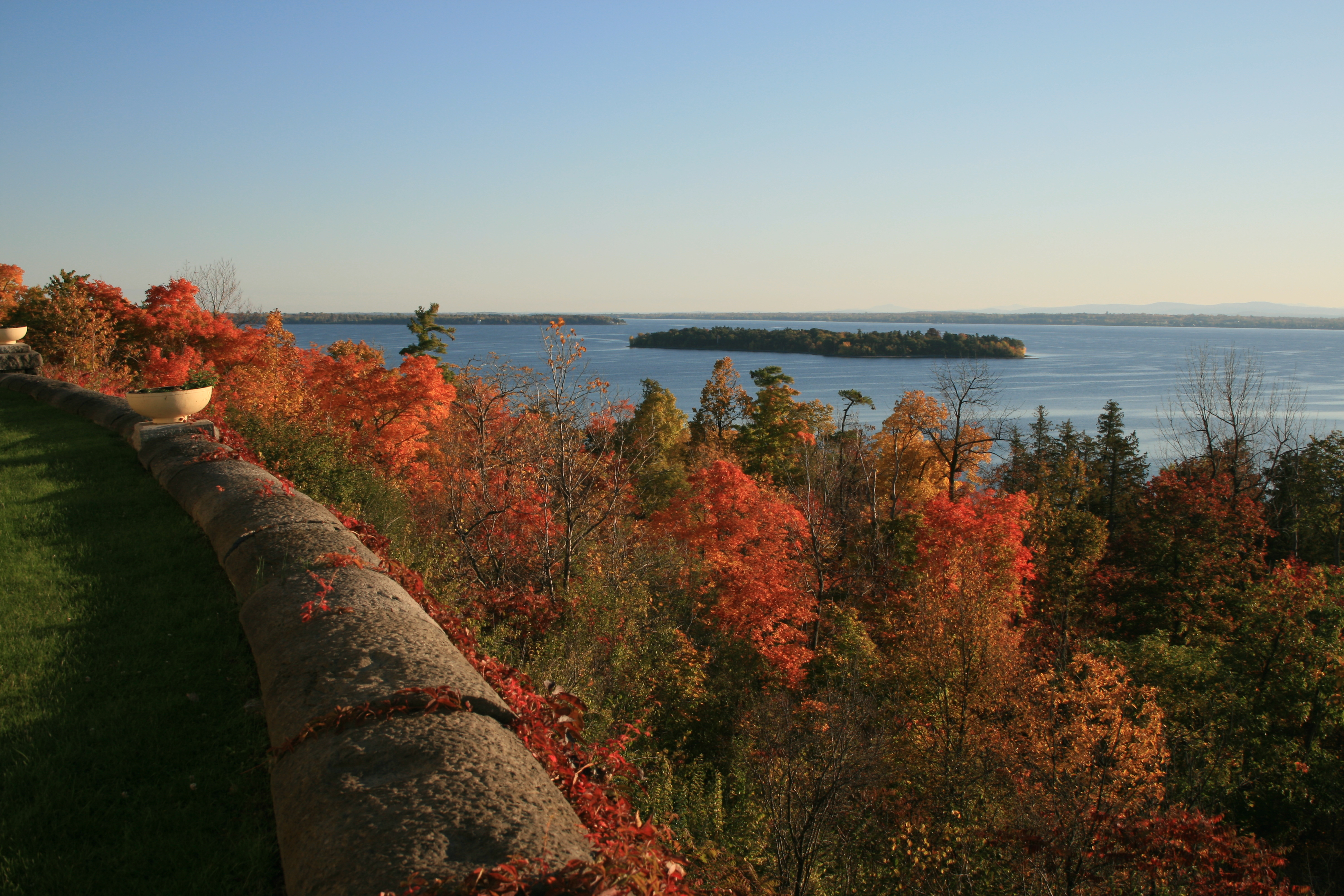 View from front lawn of Clinton Community College on Bluff Point overlooking Lake Champlain and Crab Island in Plattsburgh, New York.